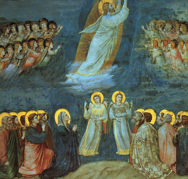 Life of Christ